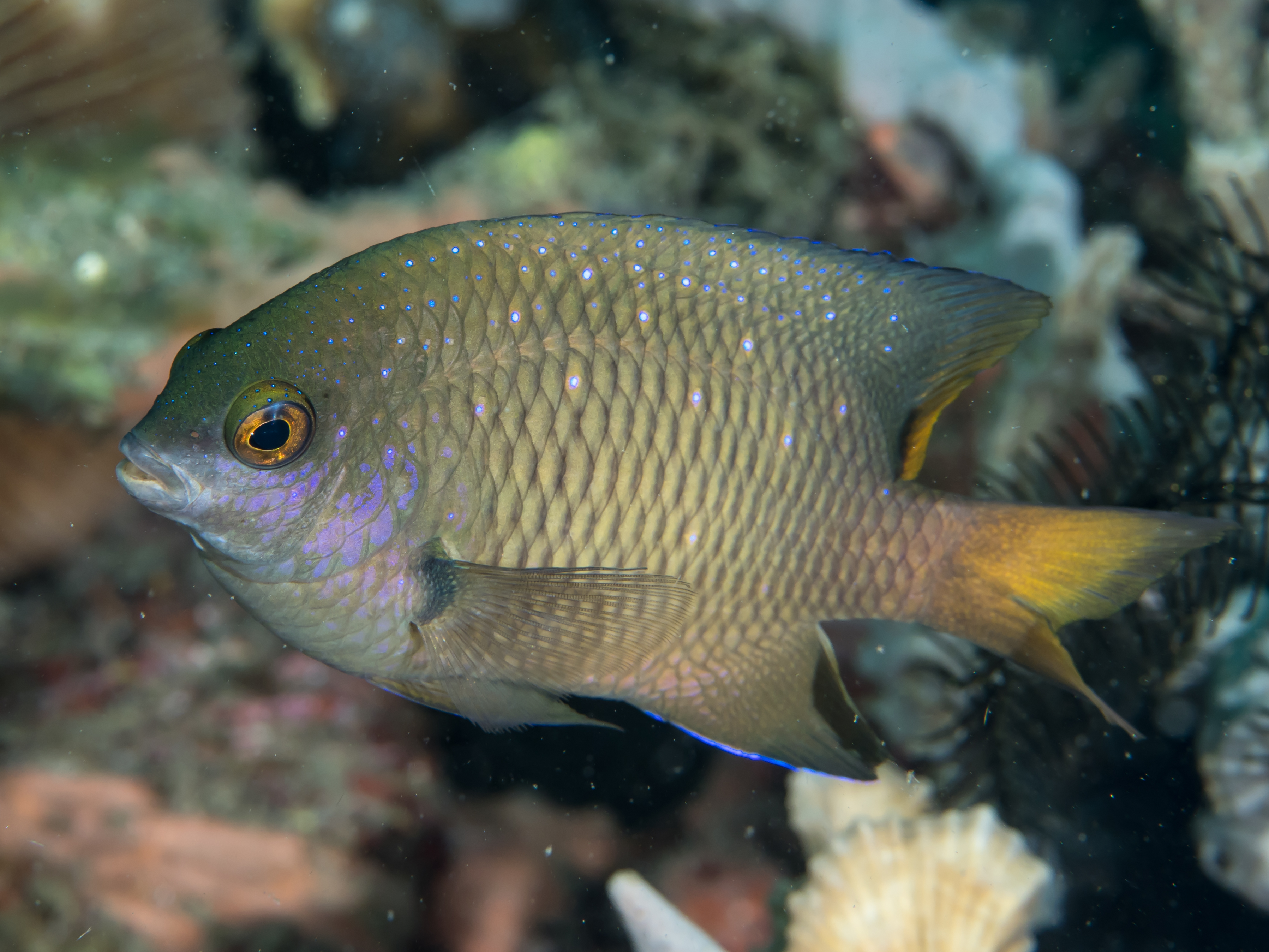 Lembeh, Indonesia - Jewel damsel (Plectroglyphidodon lacrymatus)